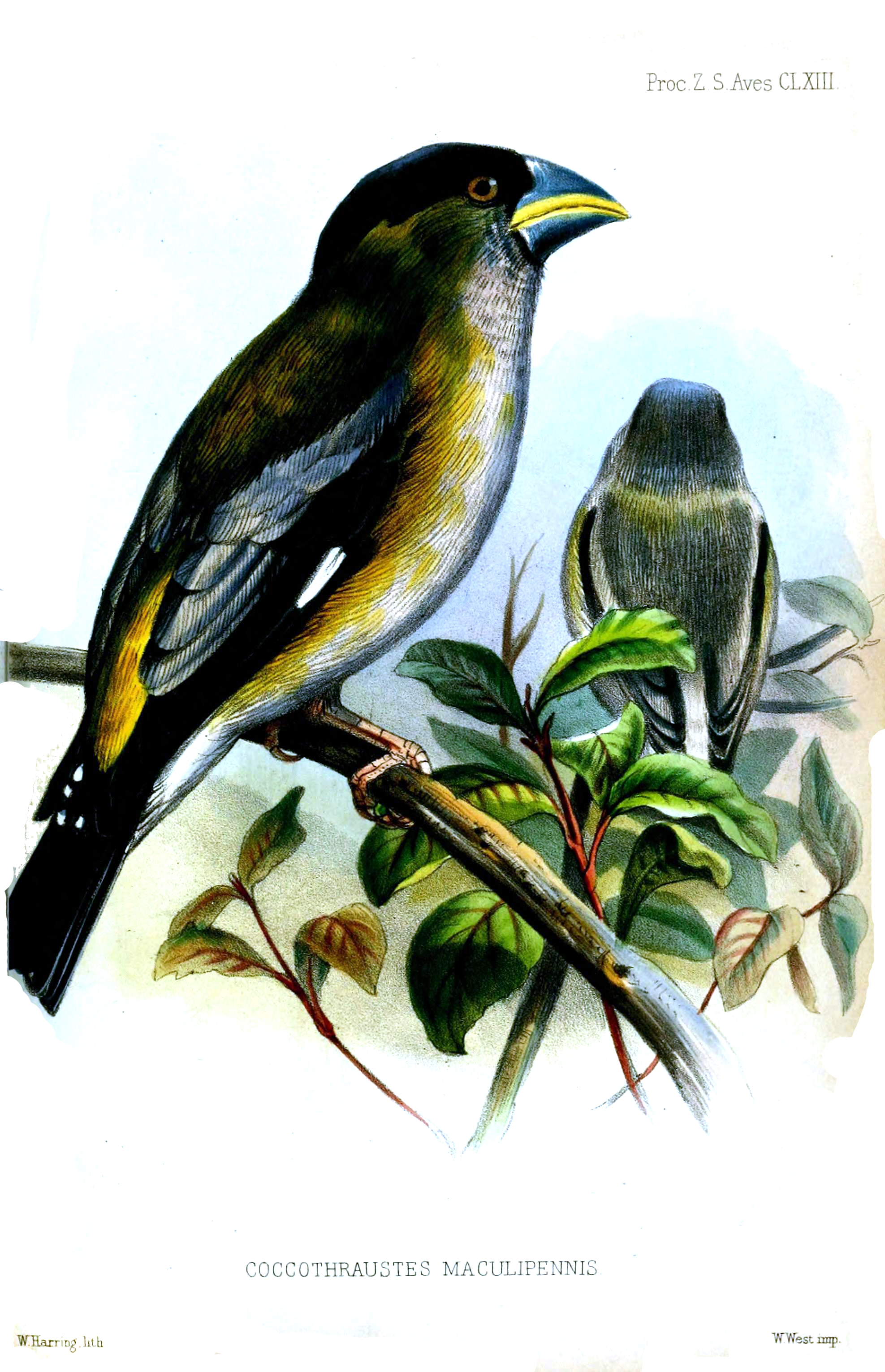 Hooded Grosbeak adult female